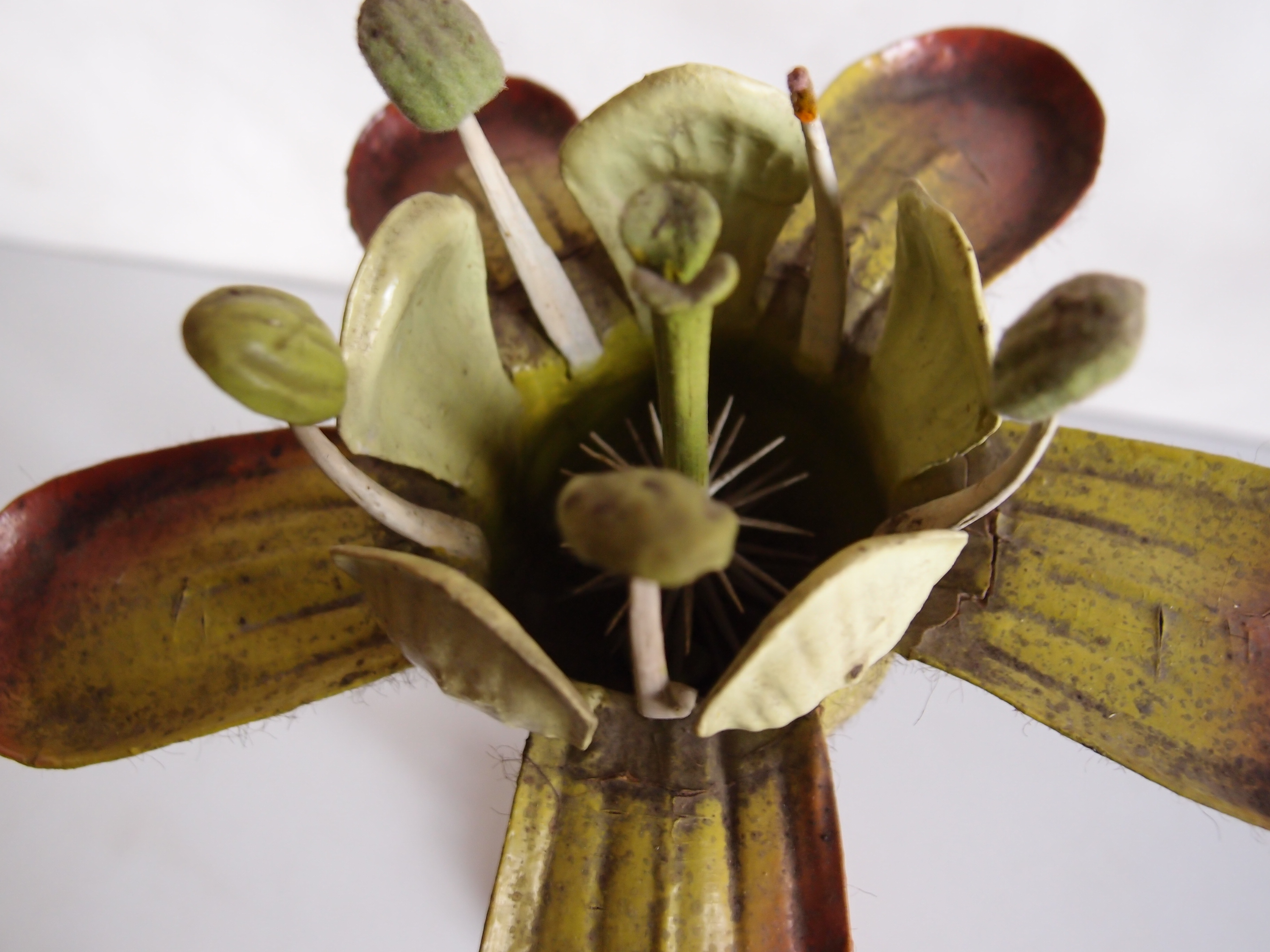 Model from the collection of the Botanical Museum in Greifswald, Germany. . see also for more information on the models